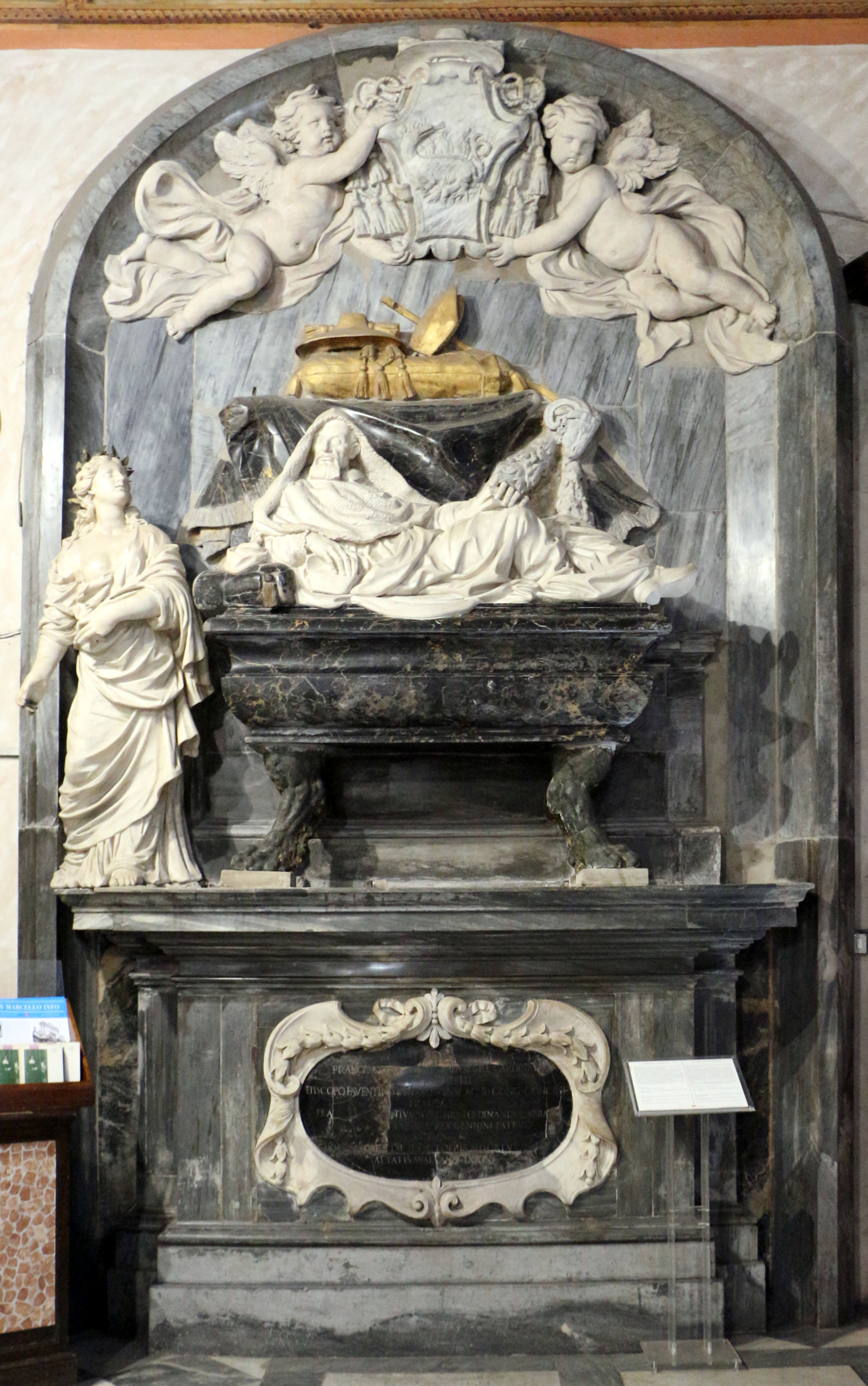 San Marcello al Corso (Rome) - Interior